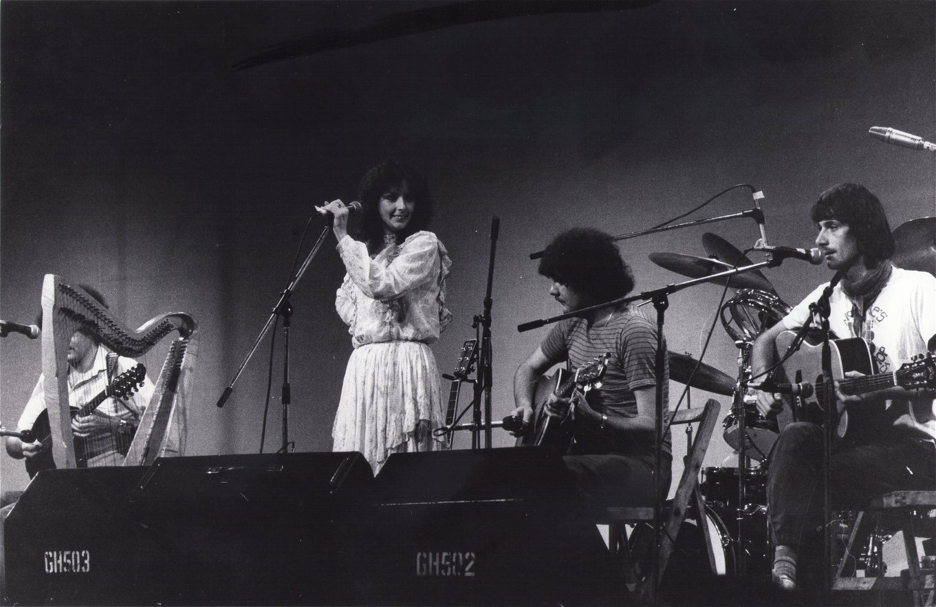 Clannad (Irish folk group) on stage at the Leeds Folk Festival, UK, 1982 (photograph by Tony Rees)